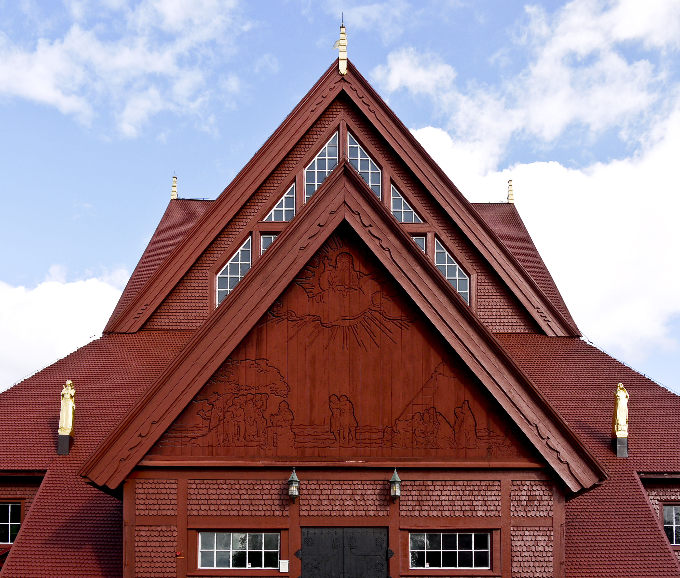 Kiruna kyrka/church, Diocese of Luleå, Kiruna, Sweden. Church wall relief.